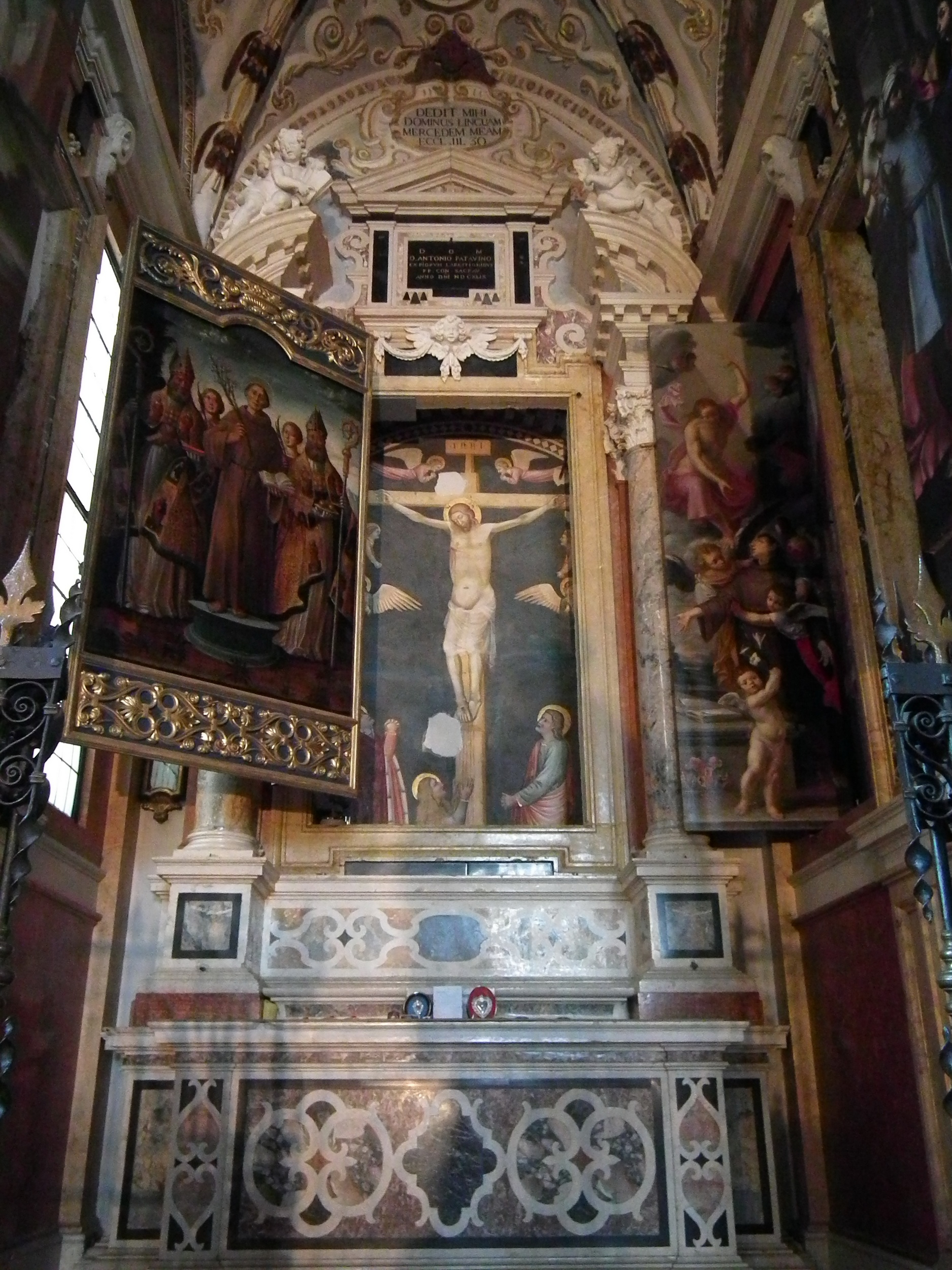 Cappella di Sant'Antonio da Padova, Chiesa di San Fermo Maggiore, Verona, Italy